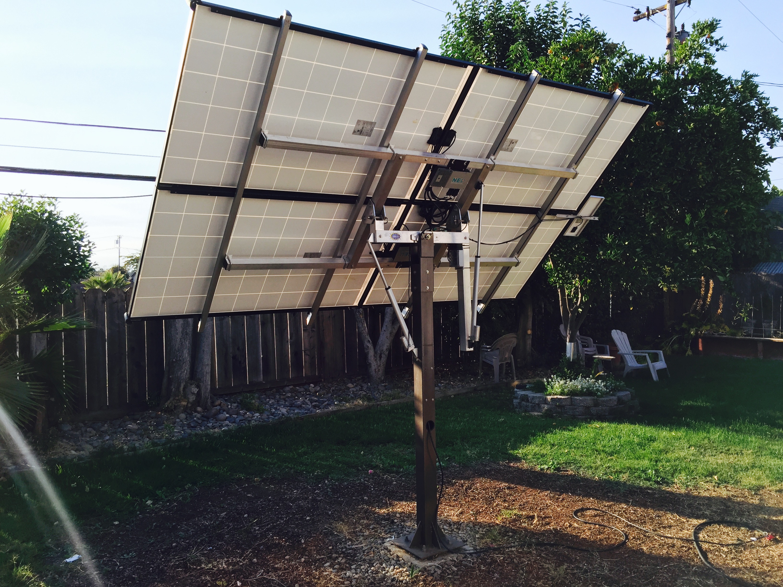 Compact design that can be multiplied for more power.